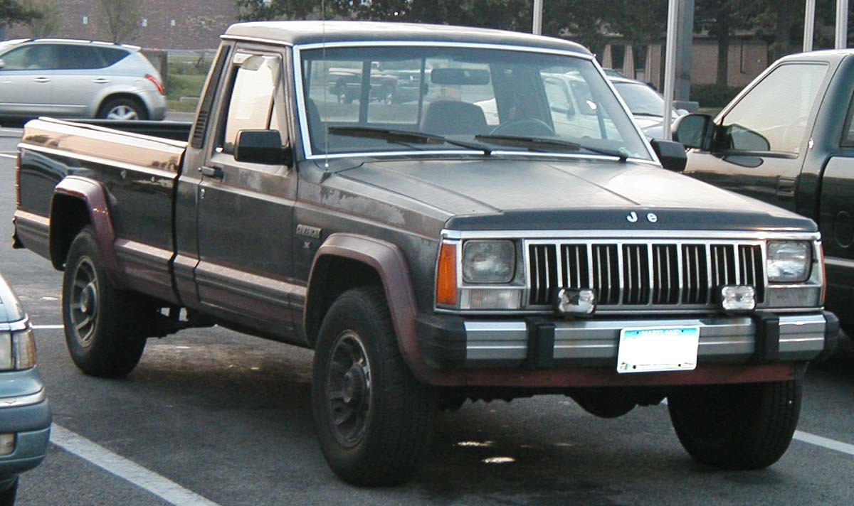 1986-1992 Jeep Comanche photographed in USA.